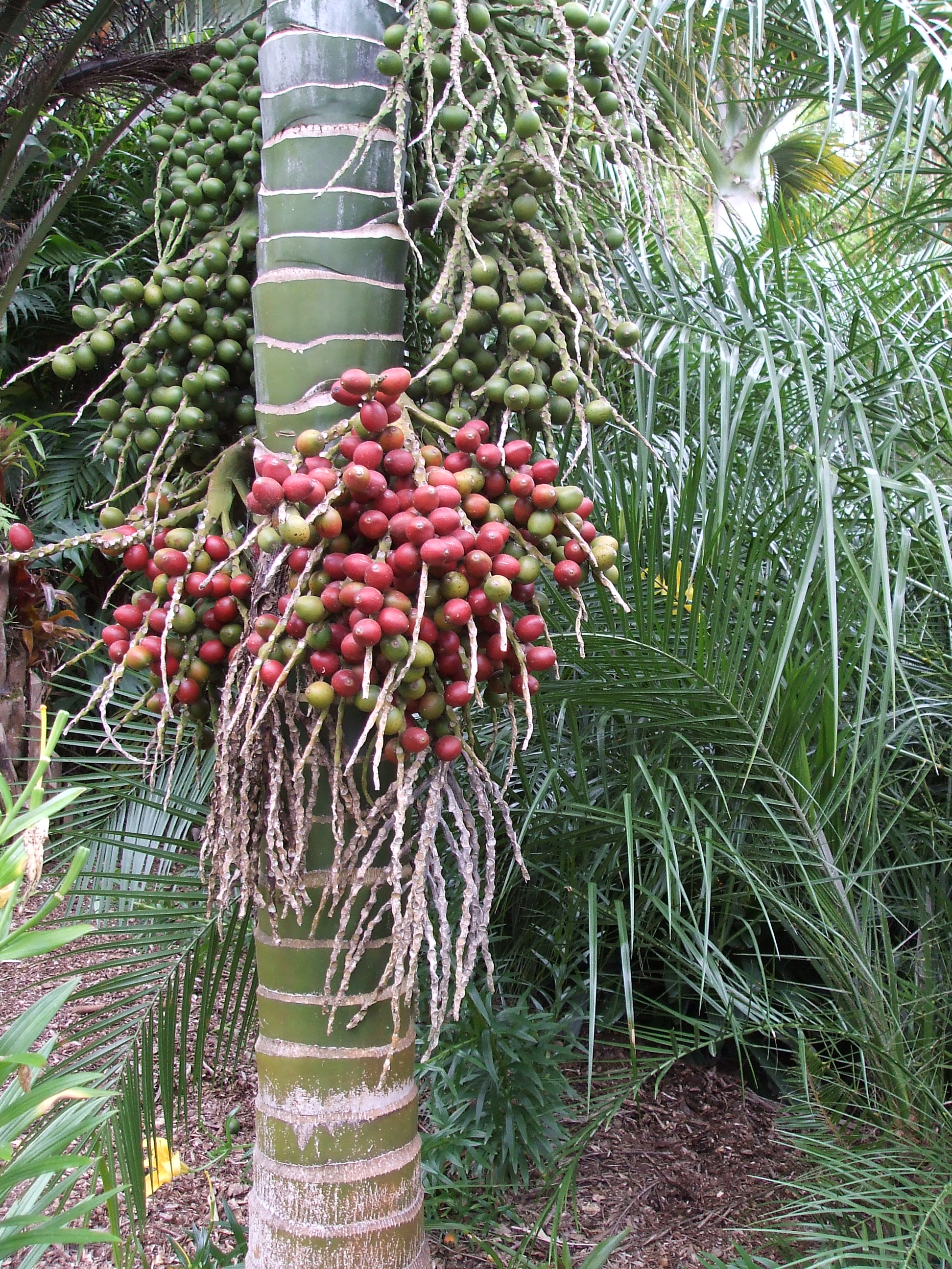 Fruits of Hedyscepe canterburyana, a palm endemic to Lord Howe Island, Australia. Specimen in cultivation at South Pacific Palms, Kerikeri, New Zealand. The fruits take four years to ripen, and it is difficult to tell when they are ripe. The egg-shaped fruit are deep red when ripe, and about 4 cm long. They appear in densely bunched fruiting spikes from below the crownshaft. Each fruit contains a single seed.